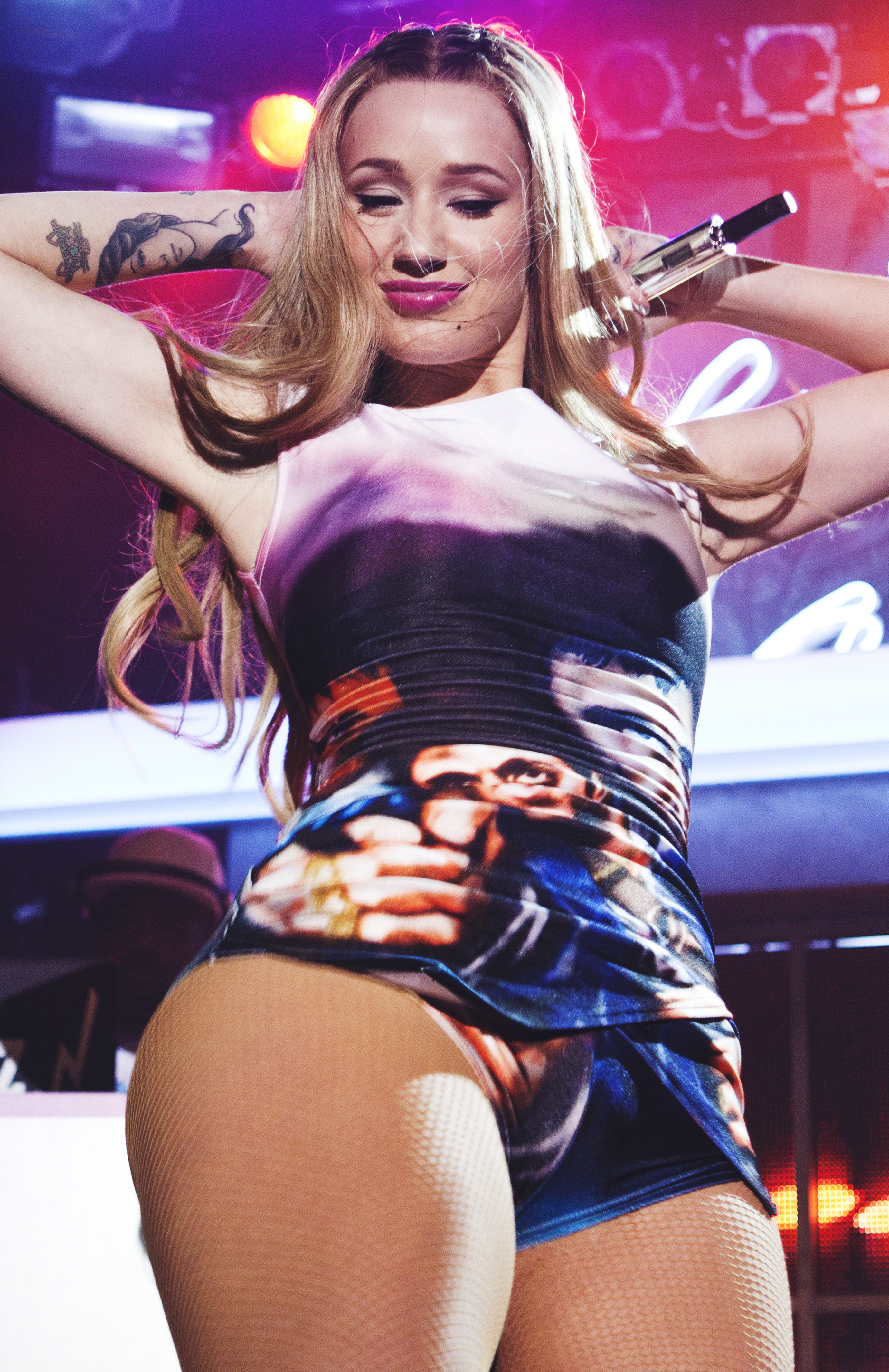 FOR USE